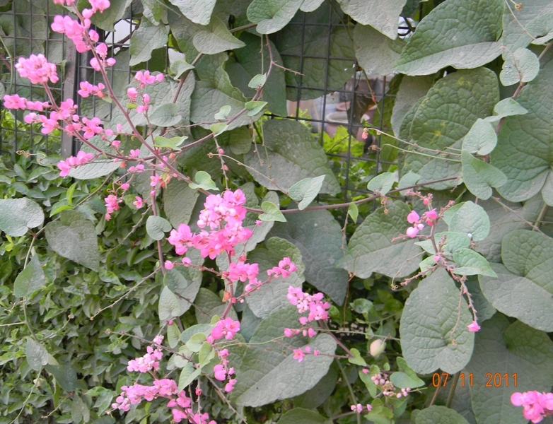 Antigonon leptopus plant. Common name- Coral vine.